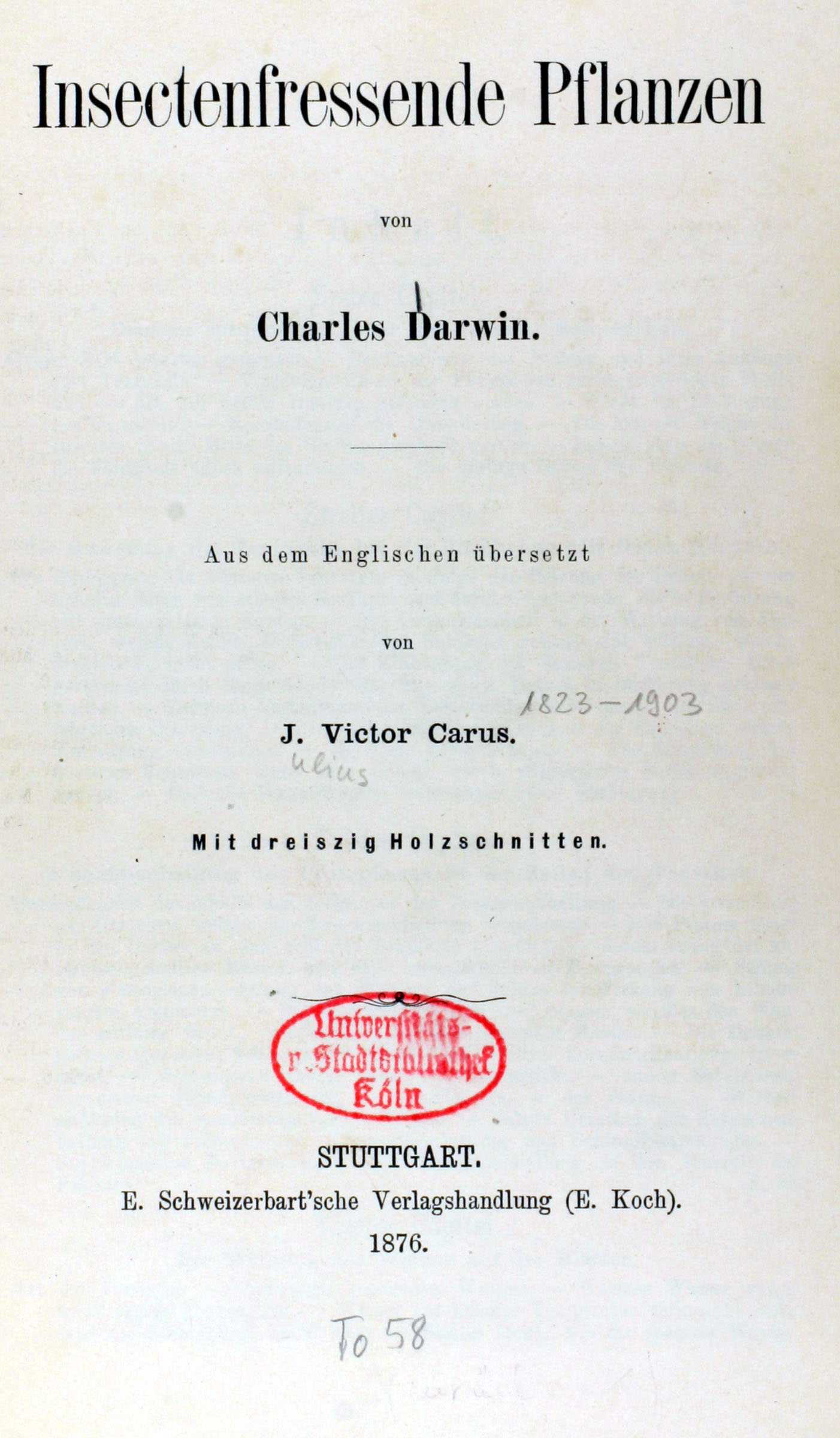 Title page of the german translation "Charles Darwin Insectenfressende Pflanzen" by J. Victor Carus